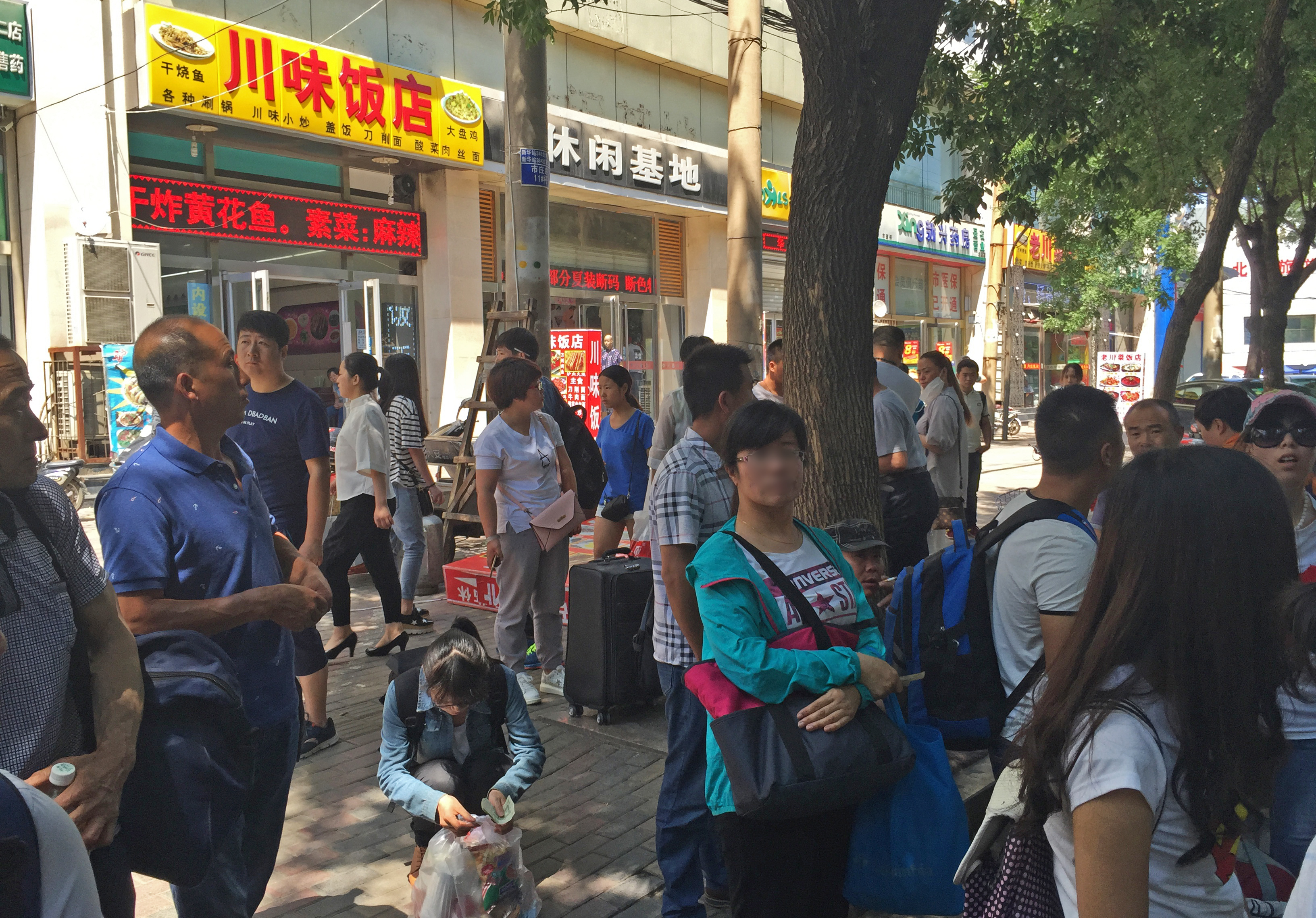 This is where passengers wait for route 20 to Shijiazhuang main station.